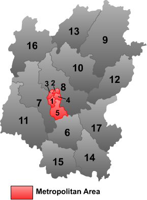 Map of Guilin in Guangxi AR